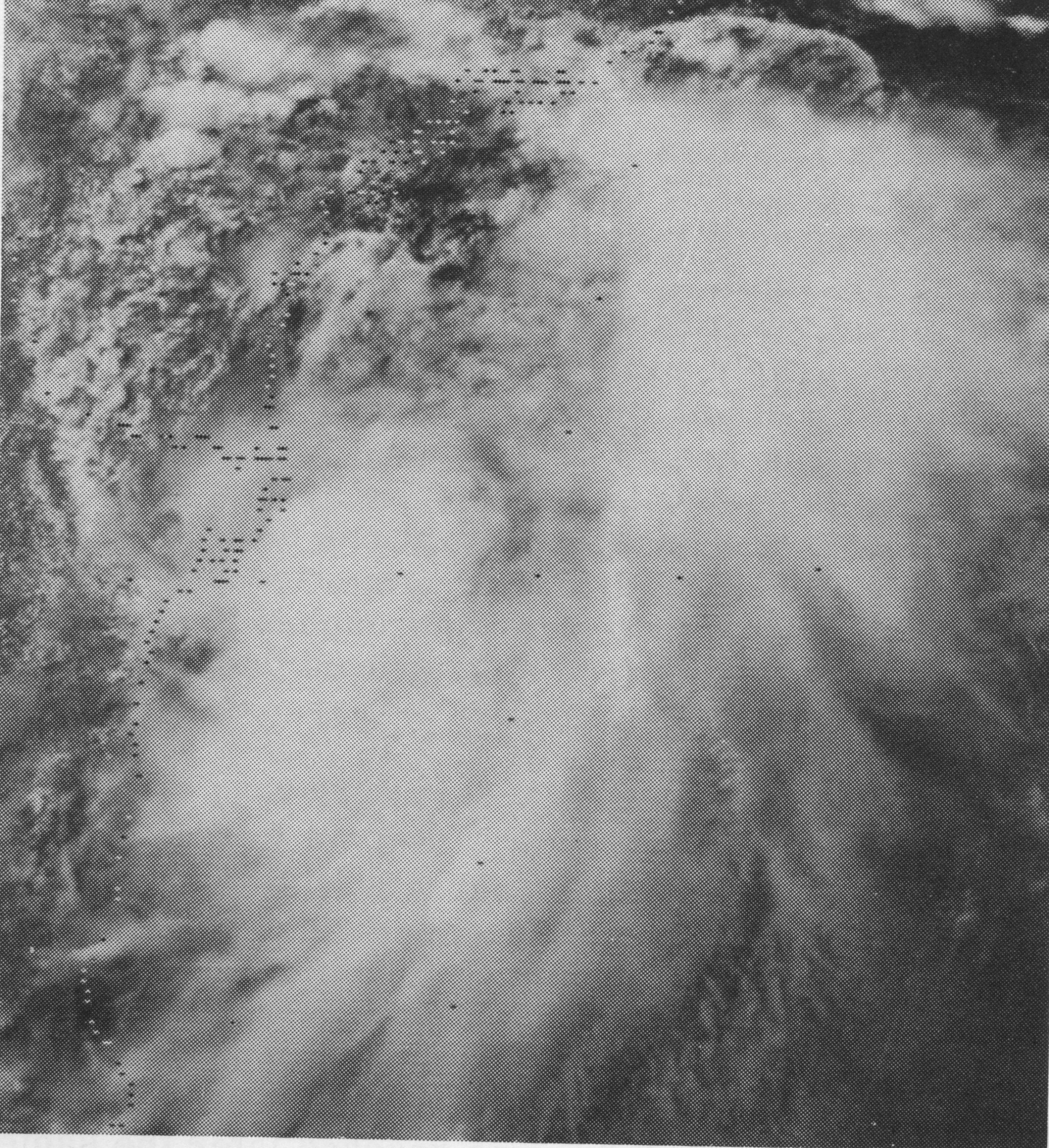 This weather satellite image of Tropical Storm Amelia was taken during the afternoon of July 30, 1978